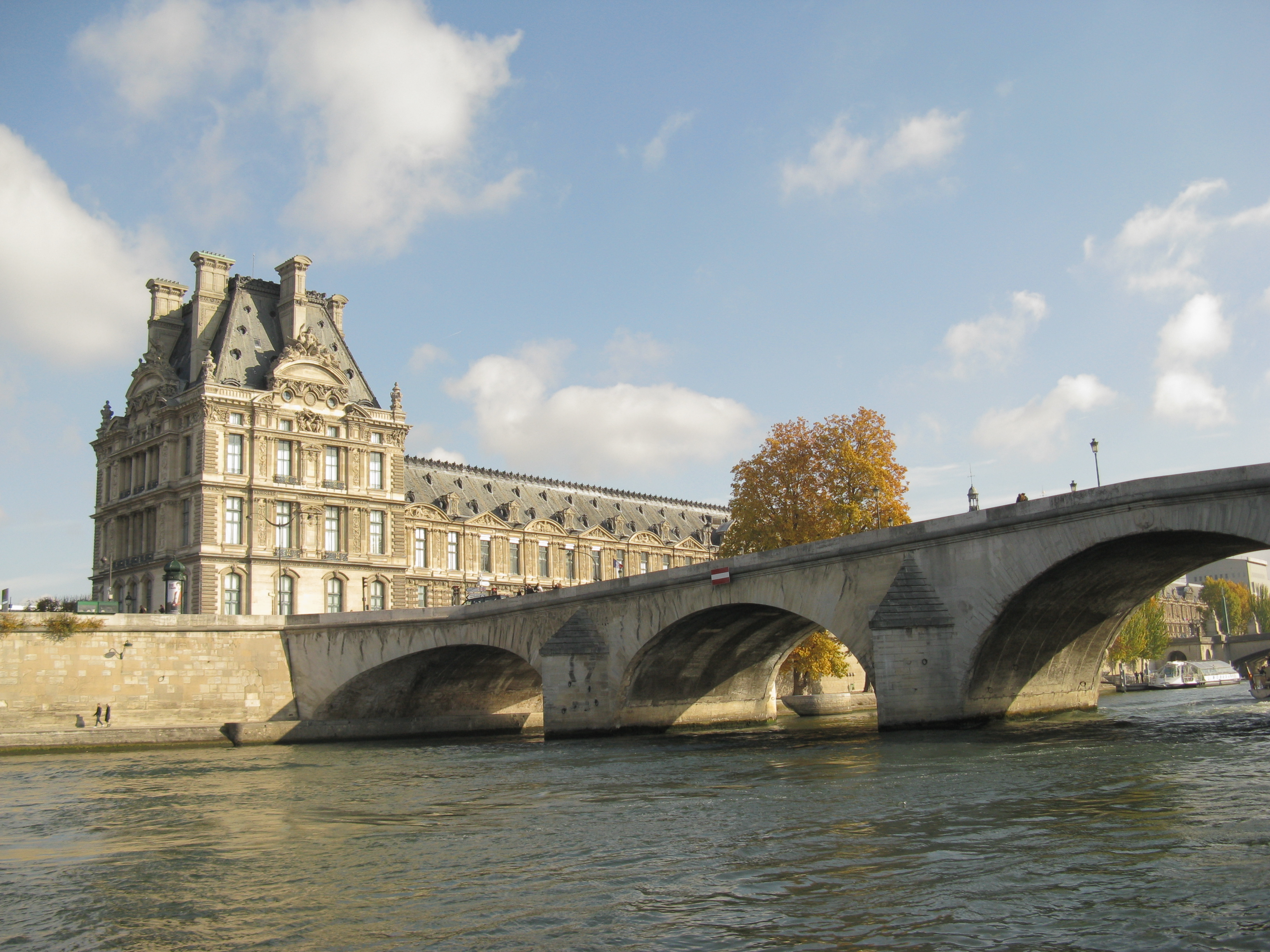 The Louvre museum as seen from the river Seine, Paris, France.